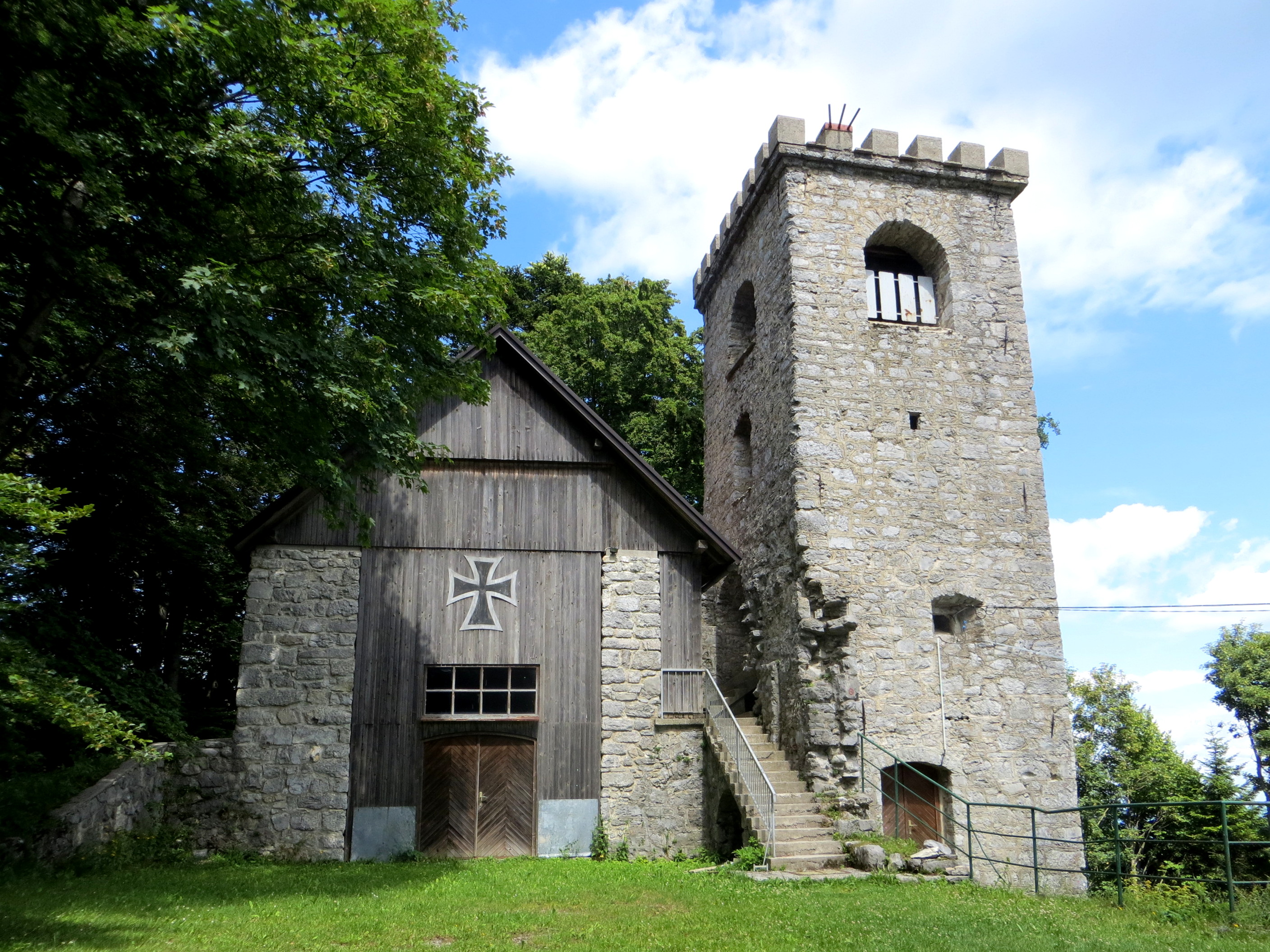 Ruins of Saint Francis Xavier Church on Mount Mirna (Mirna gora) in Planina, Municipality of Semič, Slovenia